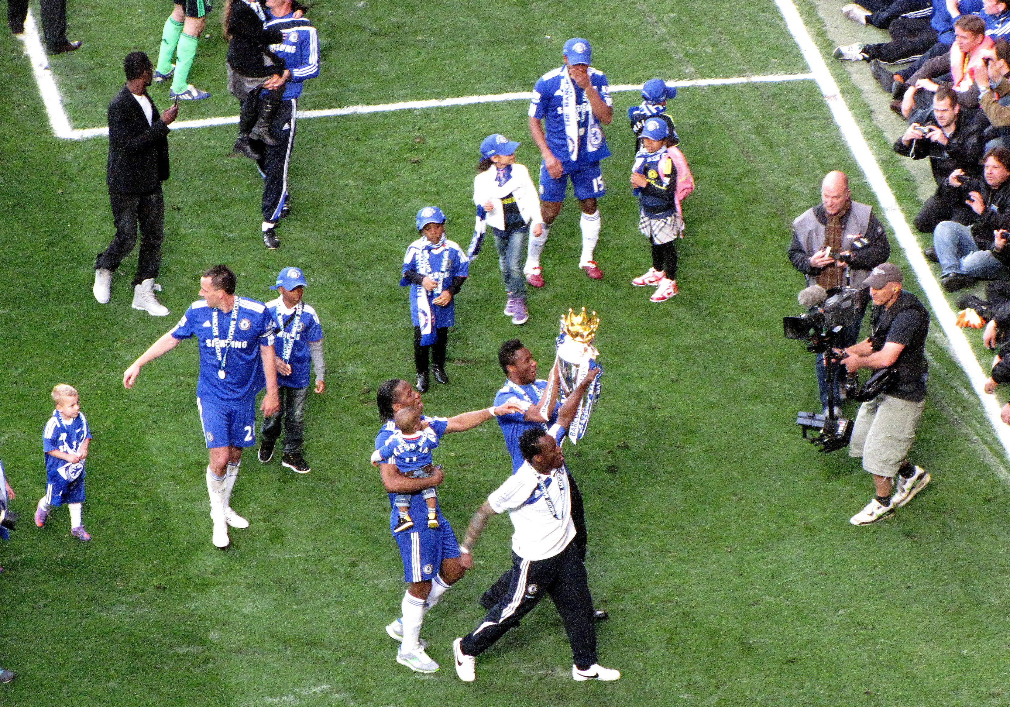 Chelsea players celebrate winning the 2009/10 Premier league title